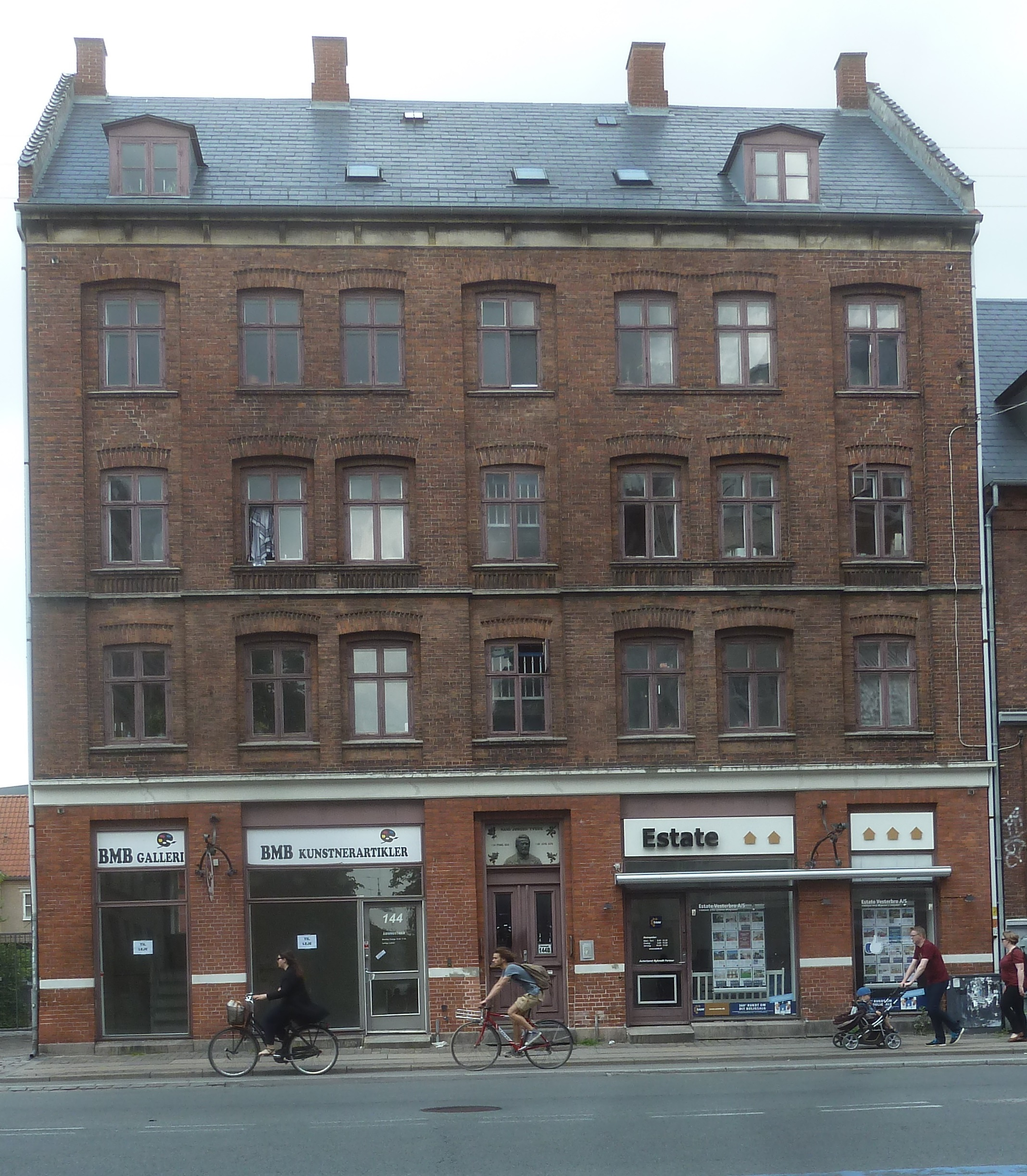 Christen Vestbergs og Jørgen Tvedes Stiftelse at Vesterbrogade 144 in Copenhagen, Denmark